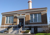 Museum Louisina